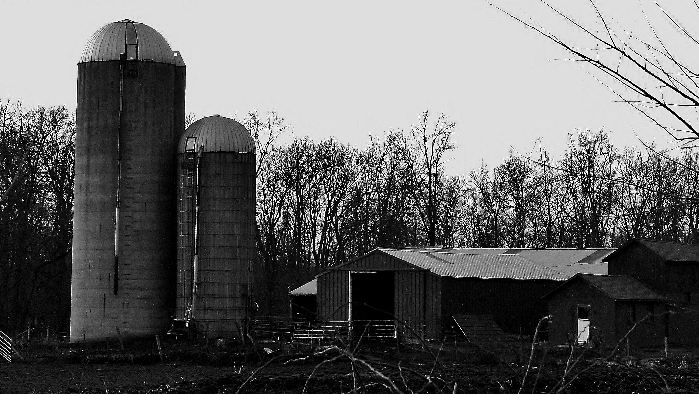 from: Notes from Nowhere (And Letters from the Darkness)